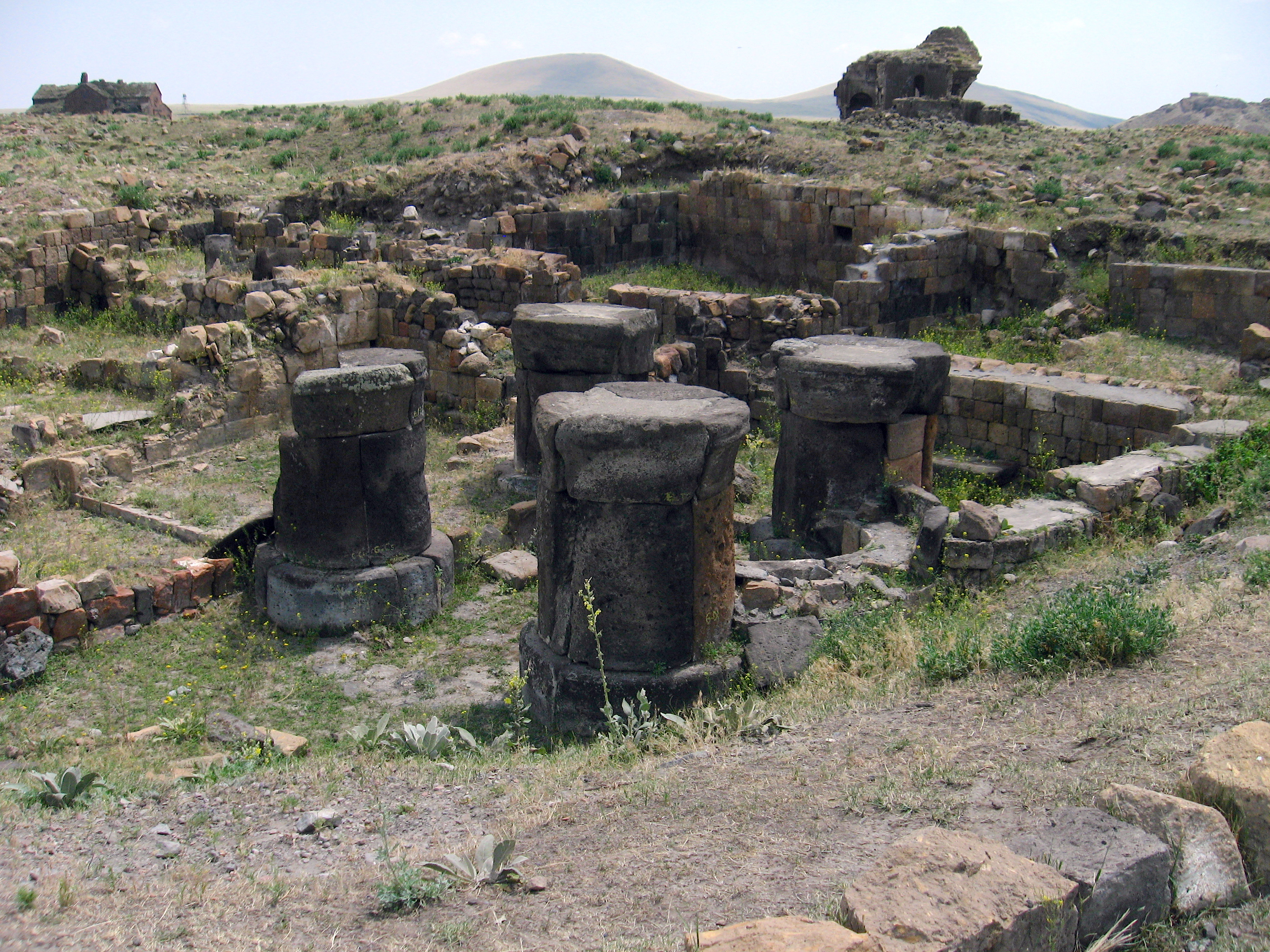 Zoroastrian fire temple in Ani, eastern Turkey.